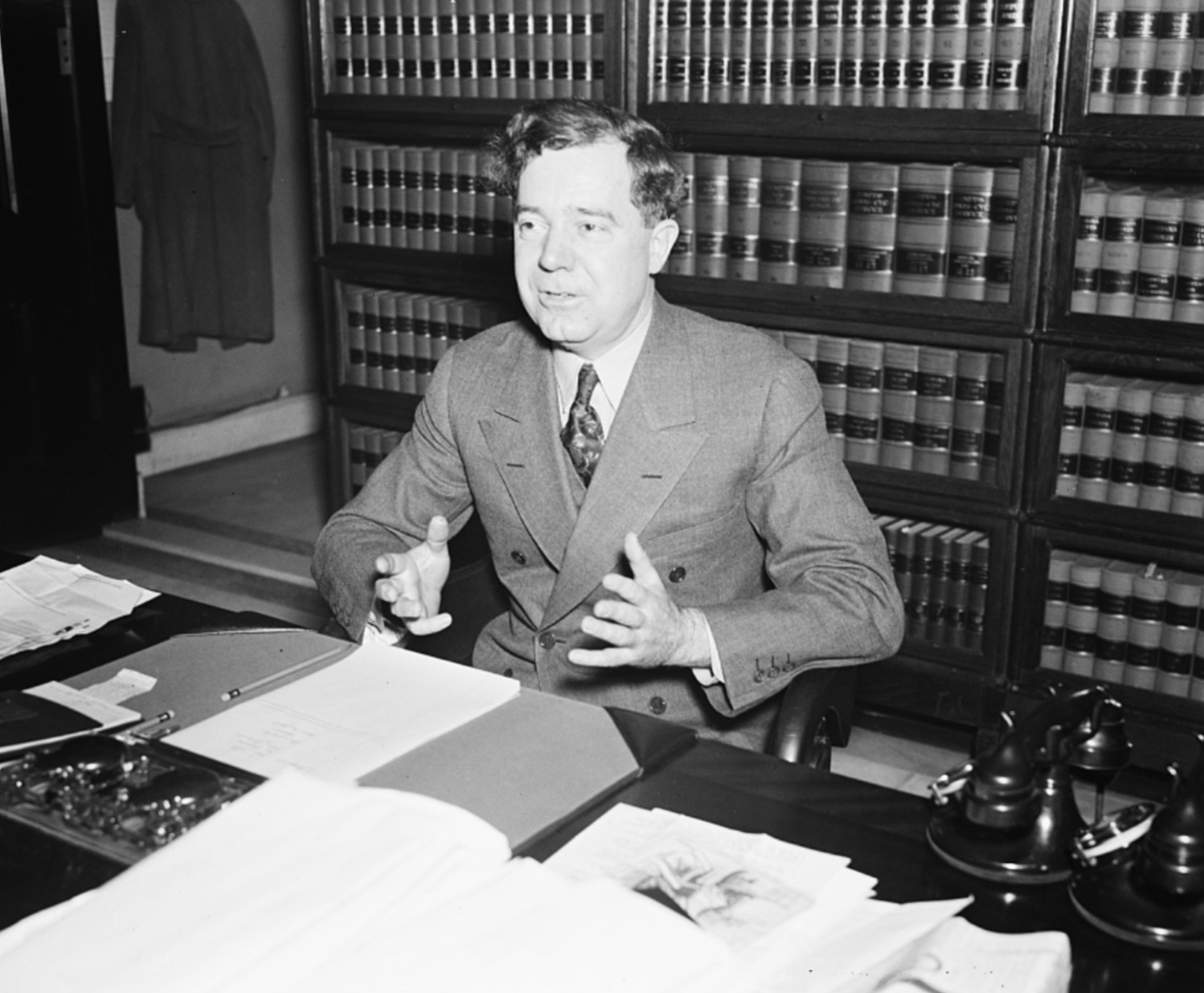 Senator Huey Long speaking from behind his desk, 1935